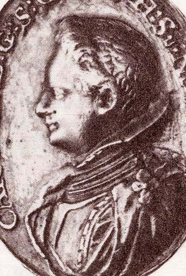 Prince Carl Philip of Sweden (1601-1622) on one of his medallions